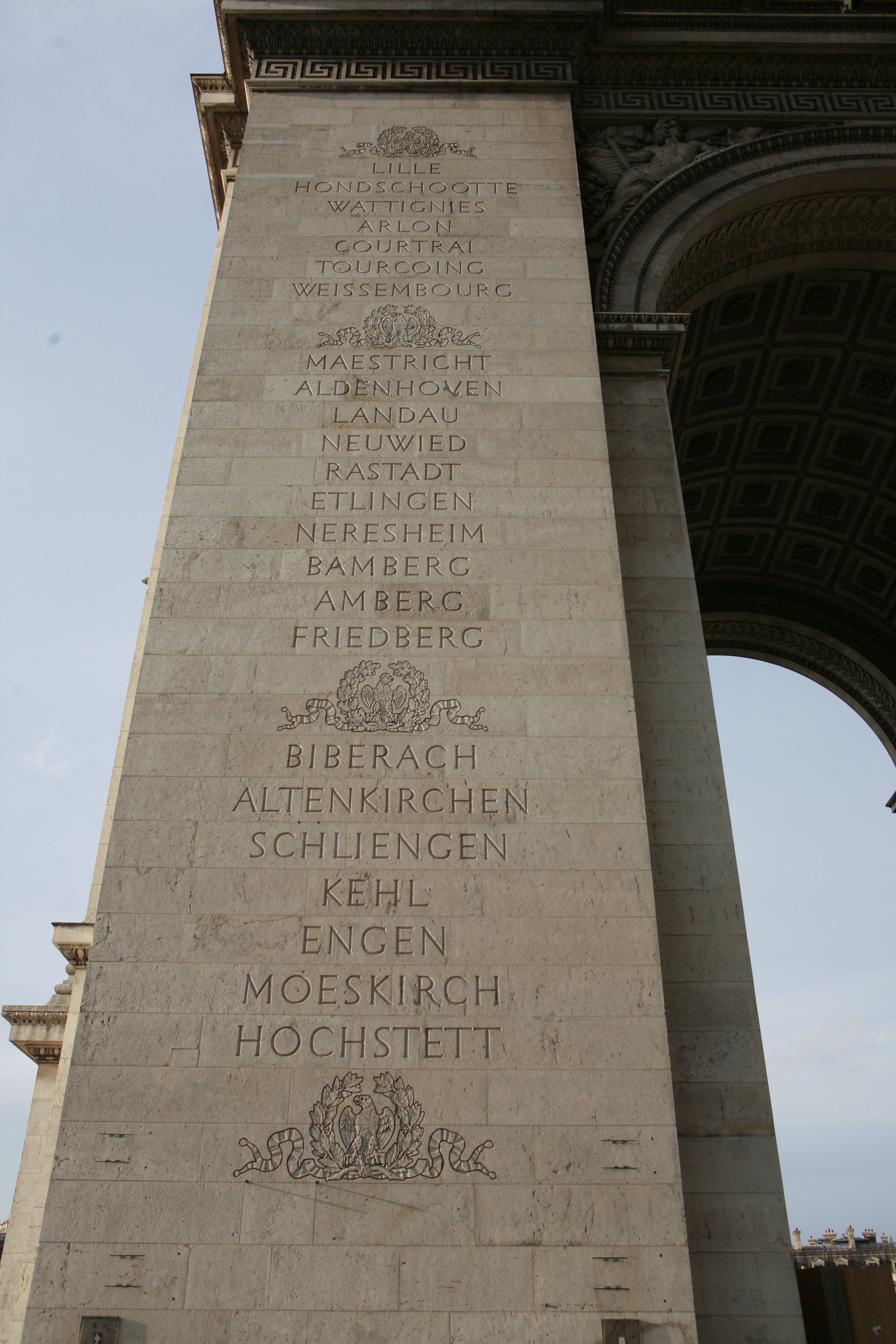 Inscriptions of the Arc de Triomphe